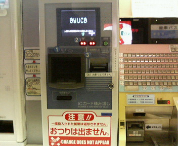 This machine is used when we deposit in Ayuca.